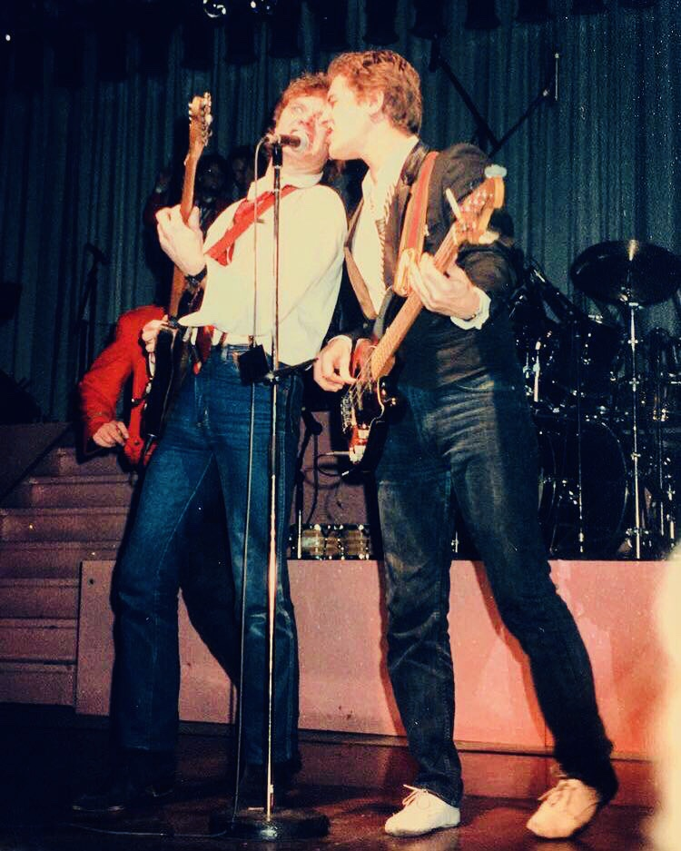 Danish Musicians